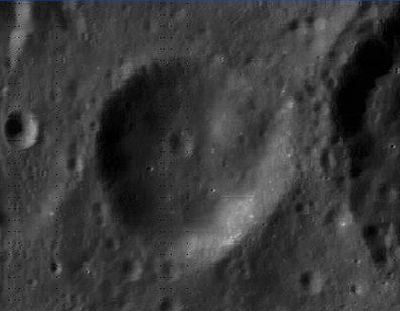 Tyndall lunar crater - LROC WAC image No. M103740151ME.